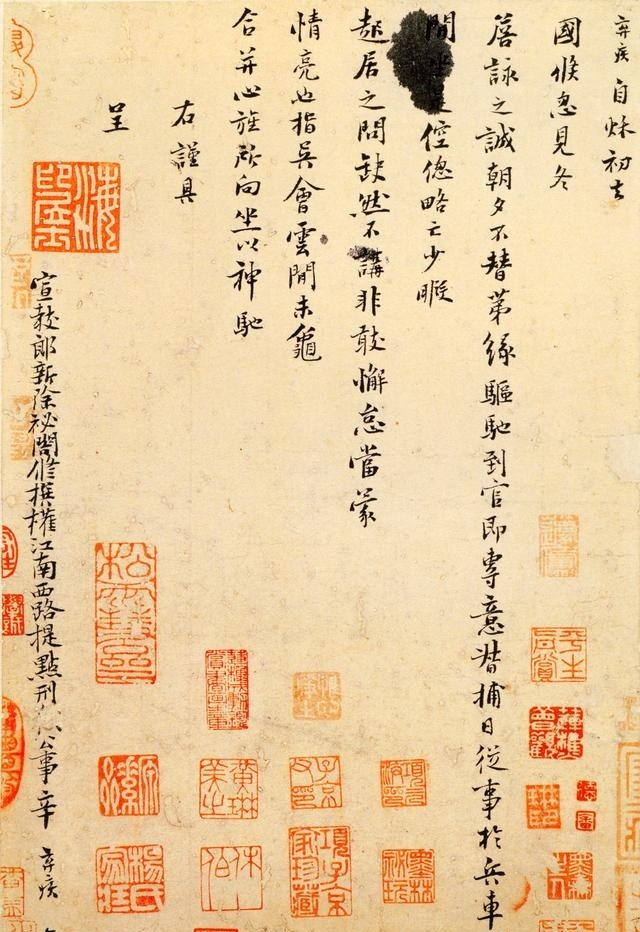 Xin Qiji (1140-1207) calligraphy of Qu Guo Tie, Song dynasty (960-1279).